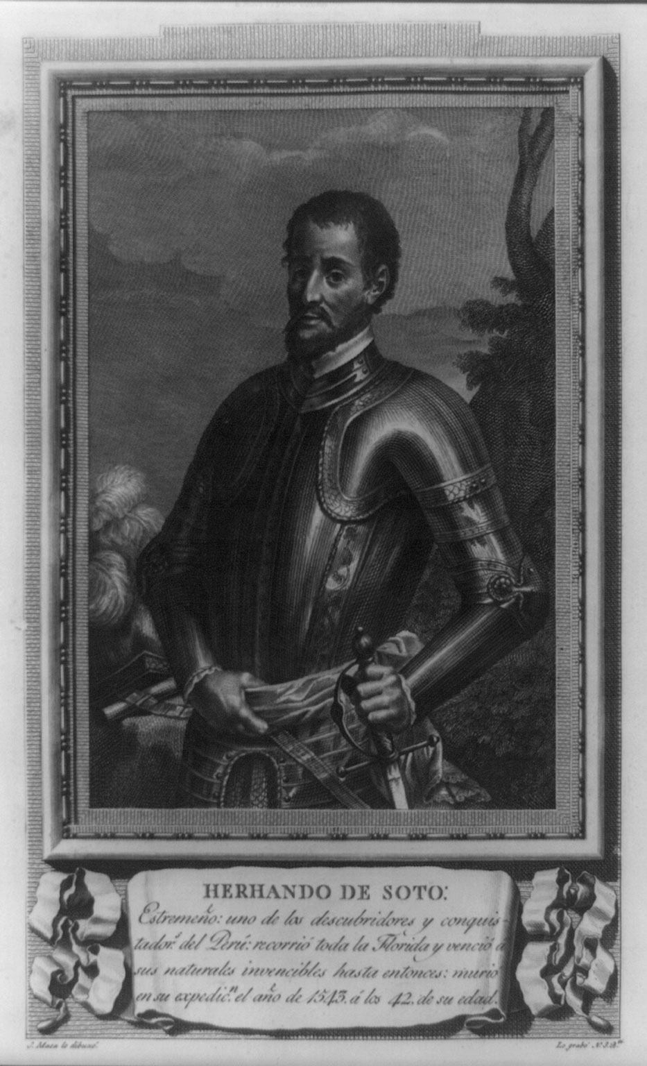 Hernando De Soto. Engraving by J. Maca.